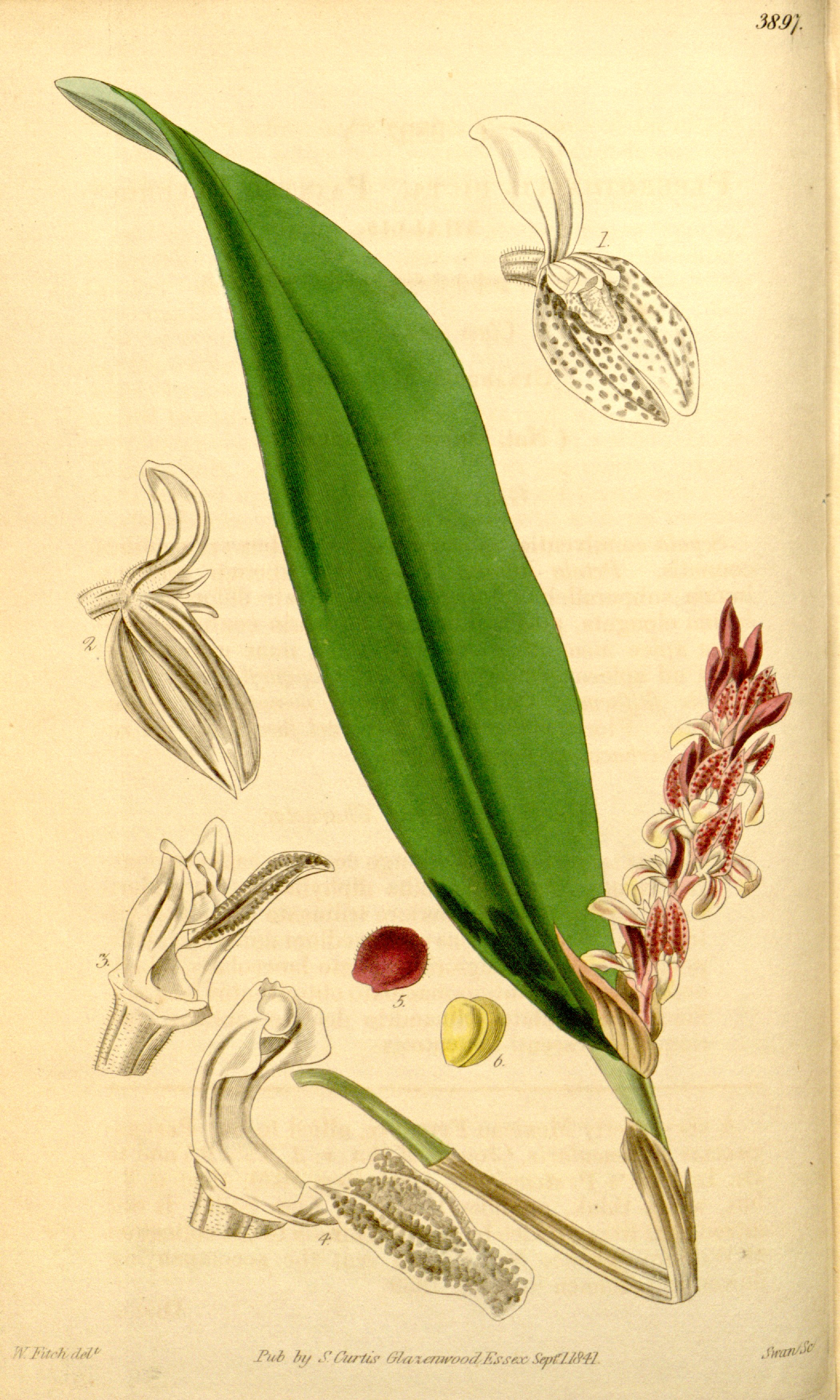 Illustration of Acianthera strupifolia (as syn. Pleurothallis picta)